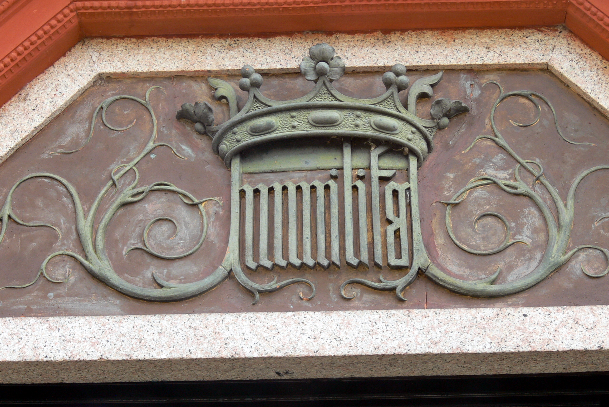 Isola Madre ( Lago Maggiore ). Chapel of the House of Borromeo ( 1858 ) - Heraldic badge of the House of Borromeo (crowned word "humilitas").